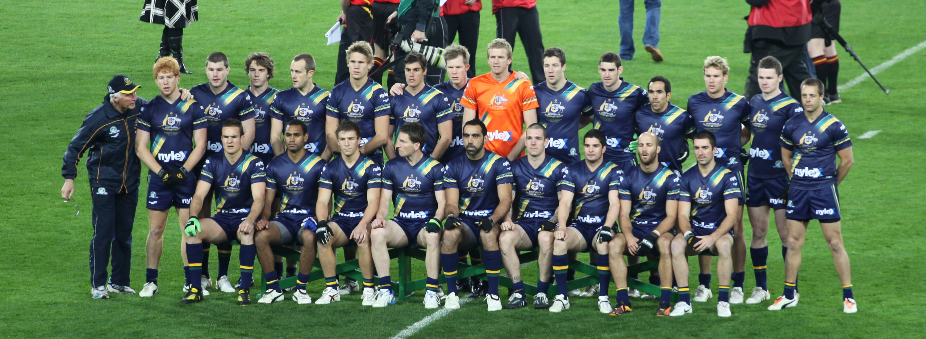 Australian International rules football team